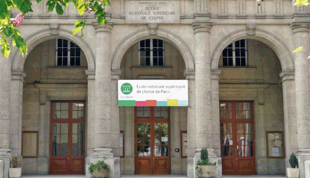 ENSCP main entrance